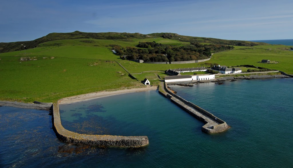 An aerial shot of the West side of Lambay Island looking down over the harbour.